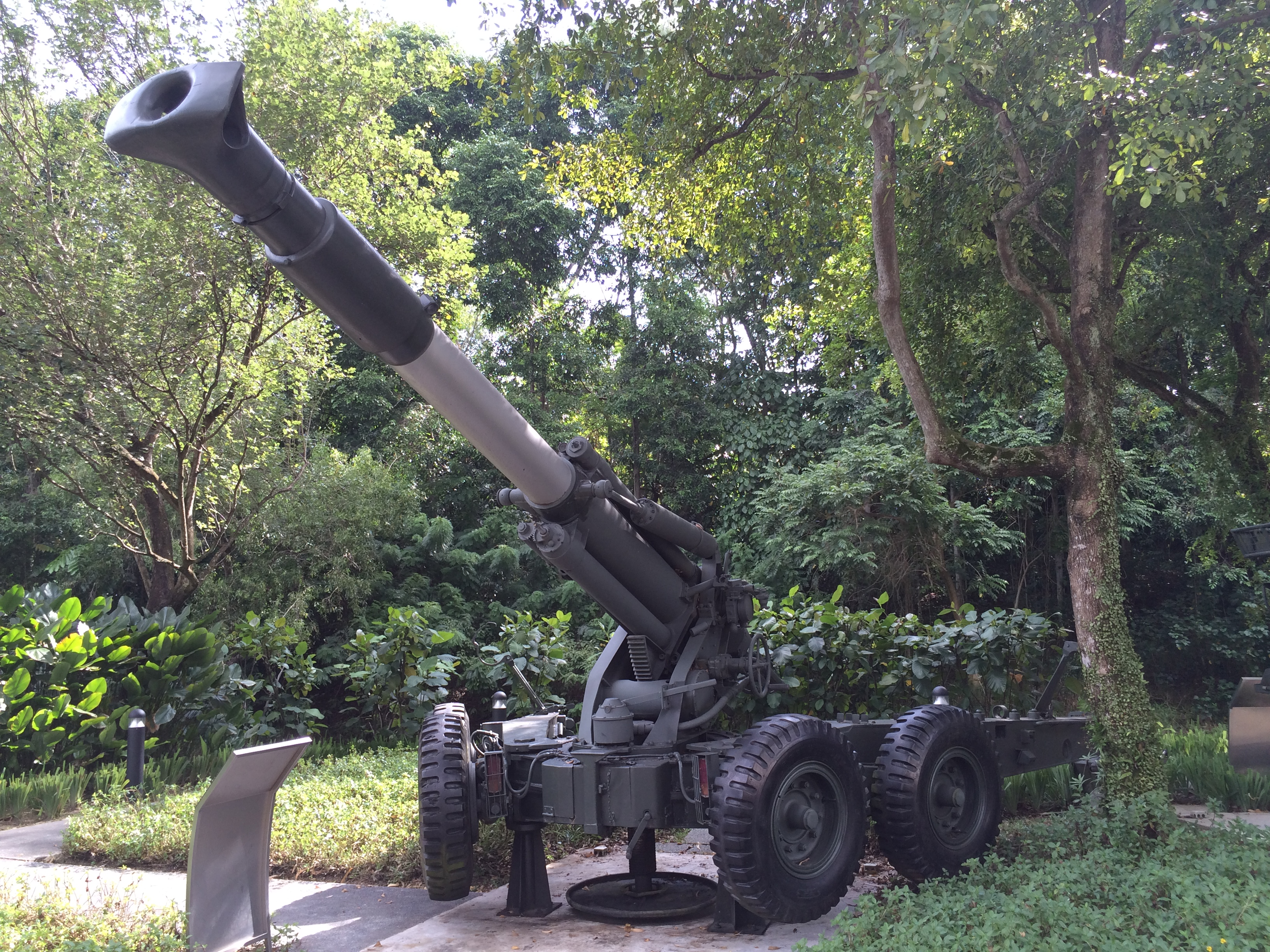 Description: Soltam M-68 howitzer at the Singapore Army Museum, Discovery Centre, Singapore.